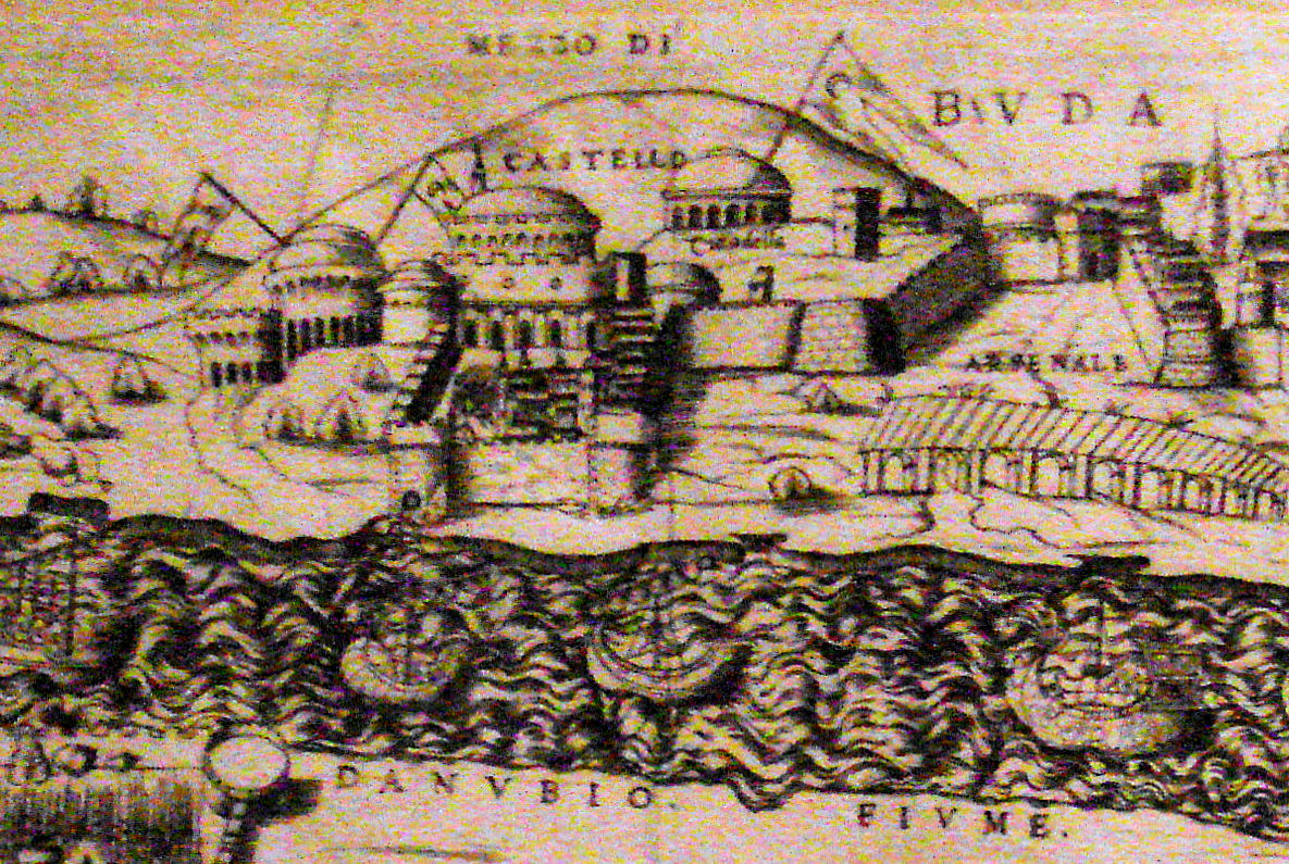 Buda_under_Ottoman_rule_Enea_Vico_1542